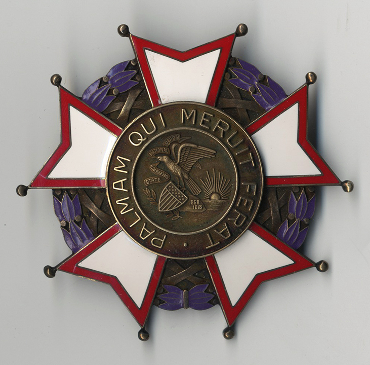 The breast star of the Order of Lincoln. Awarded by the Lincoln Academy of Illinois, the Order of Lincoln is the highest honor given by the State of Illinois.